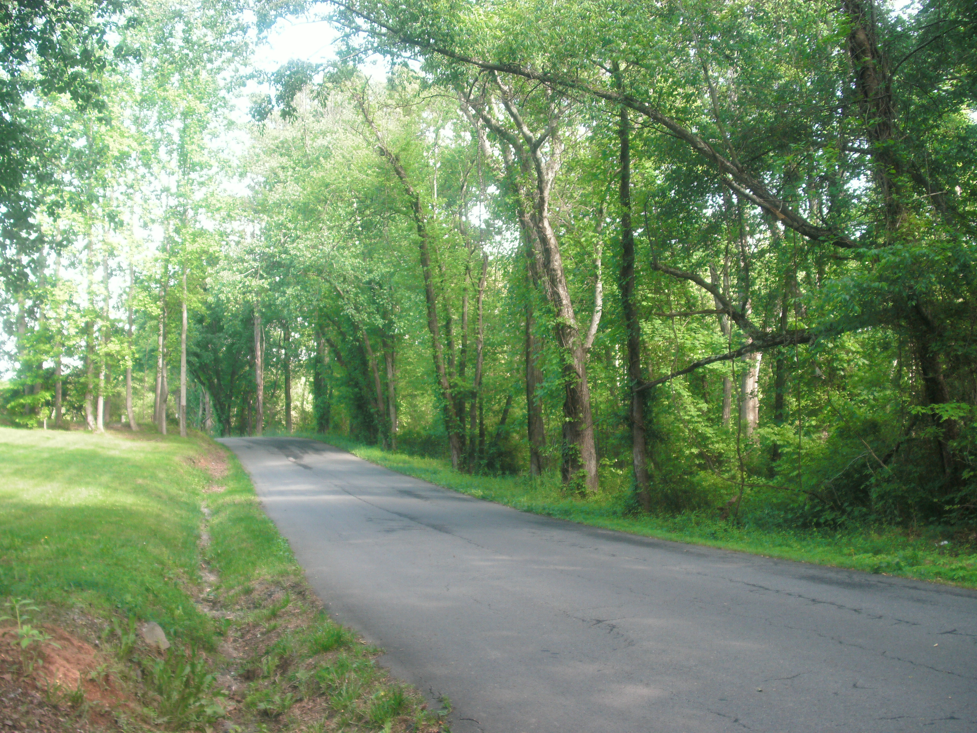 Taken by me in May, 2016 GEDSC DIGITAL CAMERA